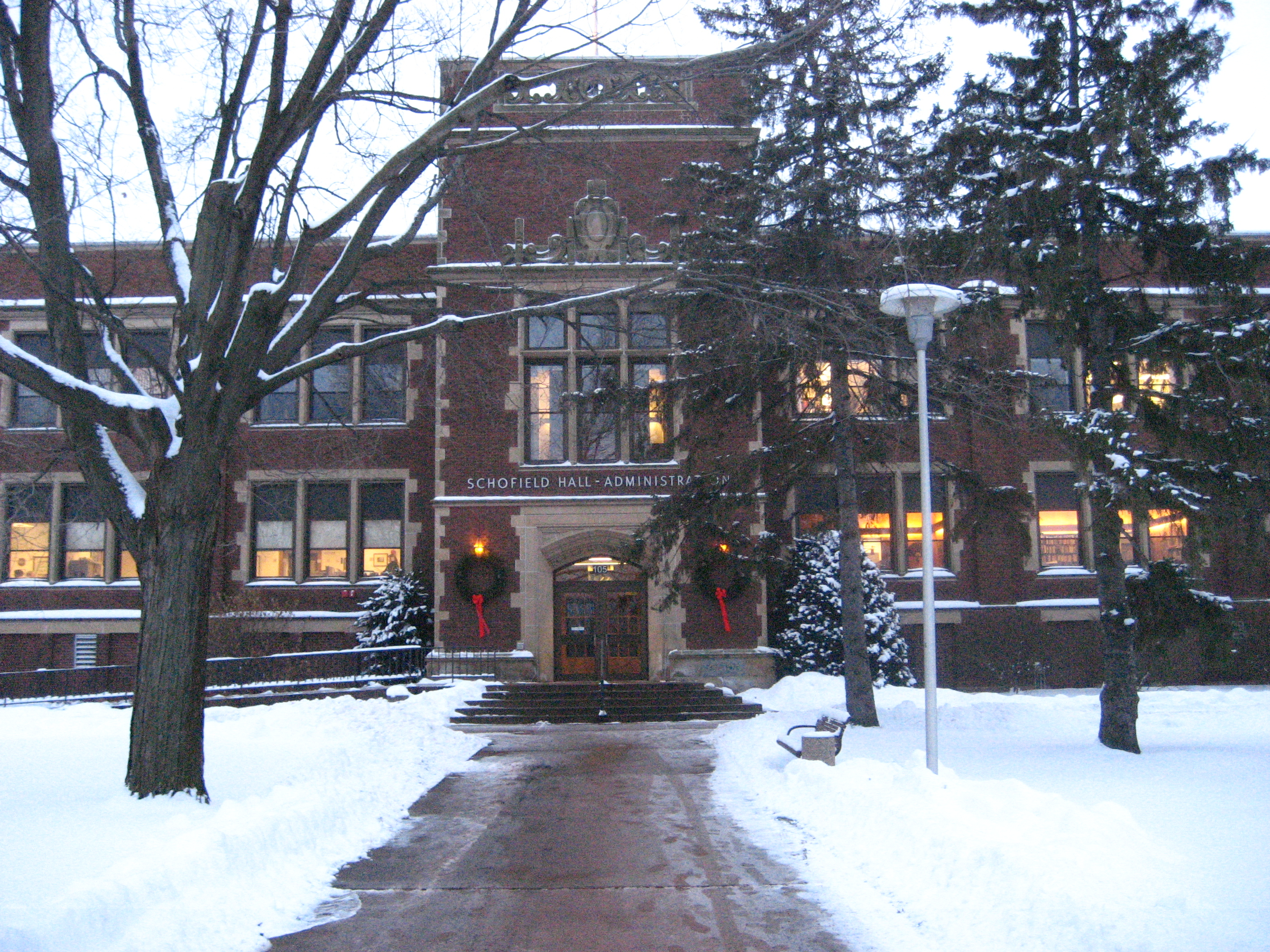 This is a picture taken on the UWEC campus. The picture was taken by Kevin Anderson, a UWEC student.